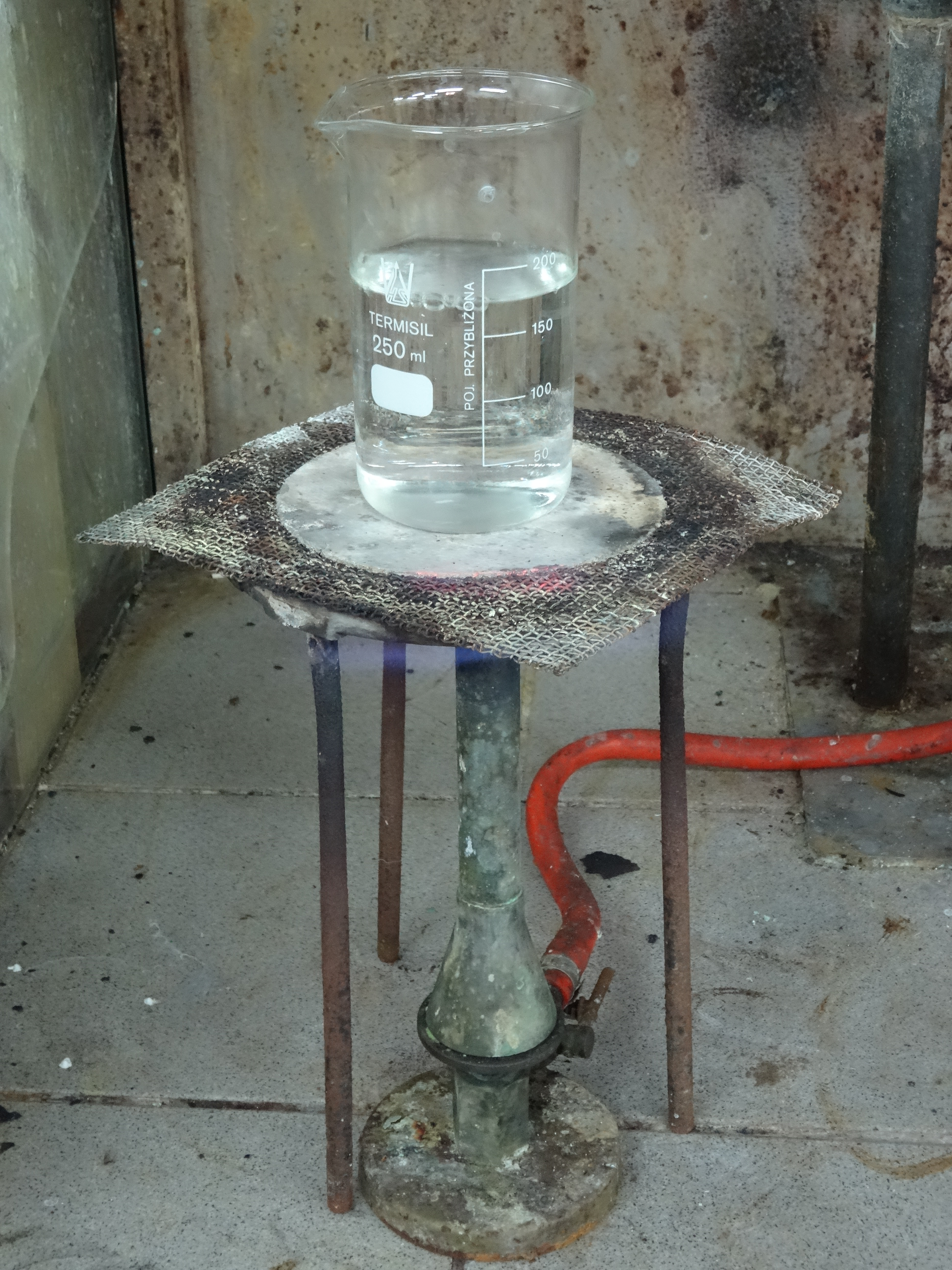 A laboratory heat spreader made of asbestos, over Teclu burner.